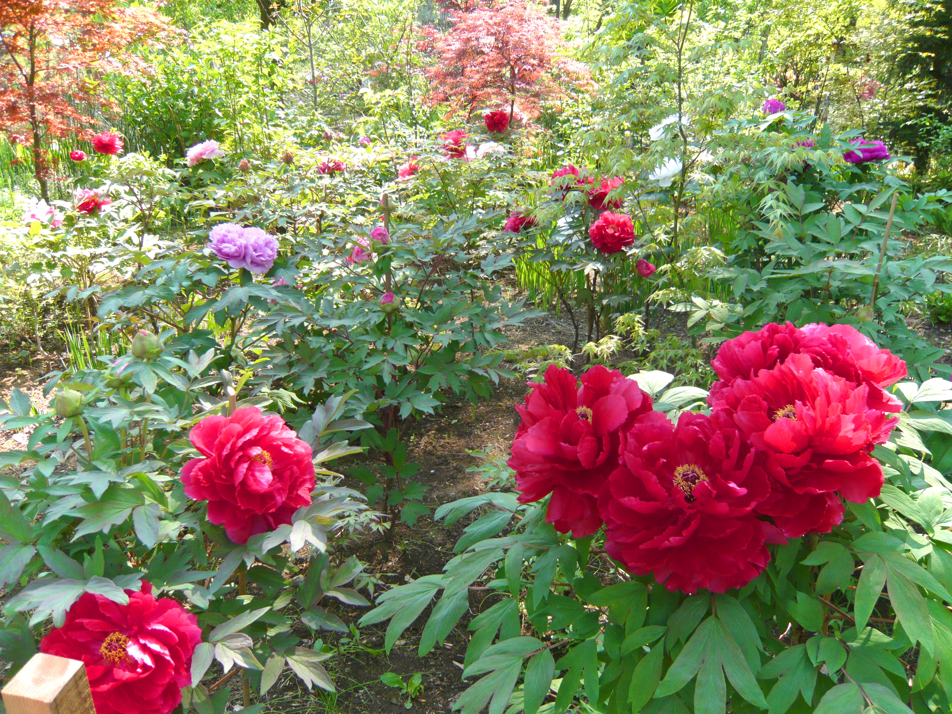 Paeonia suffruticosa, peony flowers, - in Tamon'in temple, Tokorozawa, Japan.